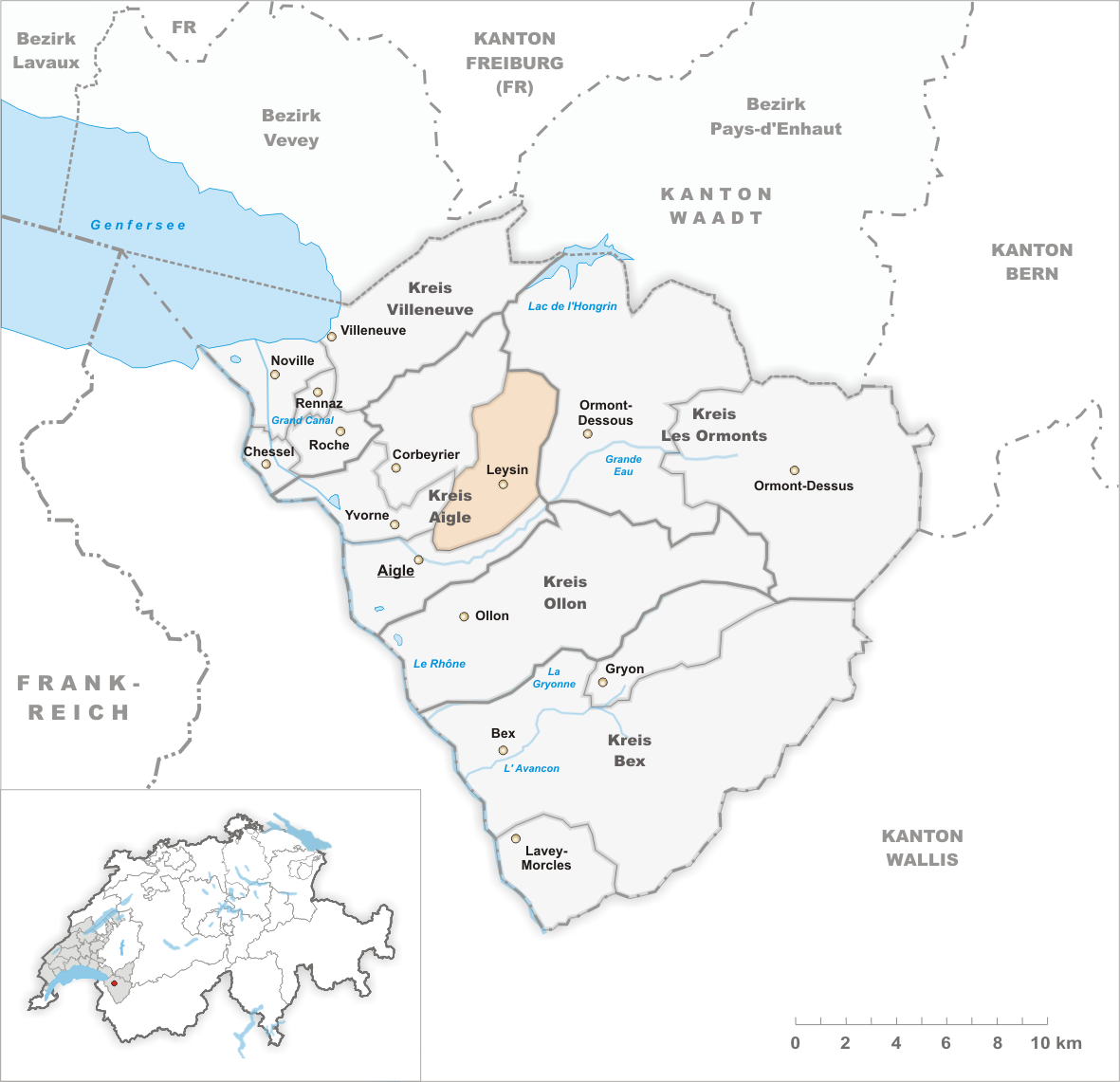 Municipality Leysin